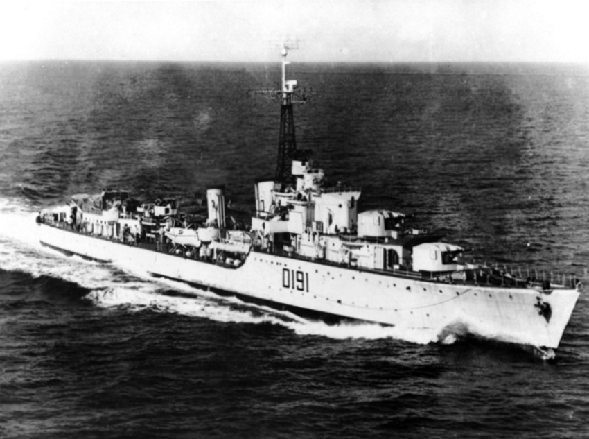 The Royal Australian Navy destroyer HMAS Bataan (D191) screening the Royal Navy aircraft carrier HMS Ocean (R68), not visible, off Korea in 1952-1953.